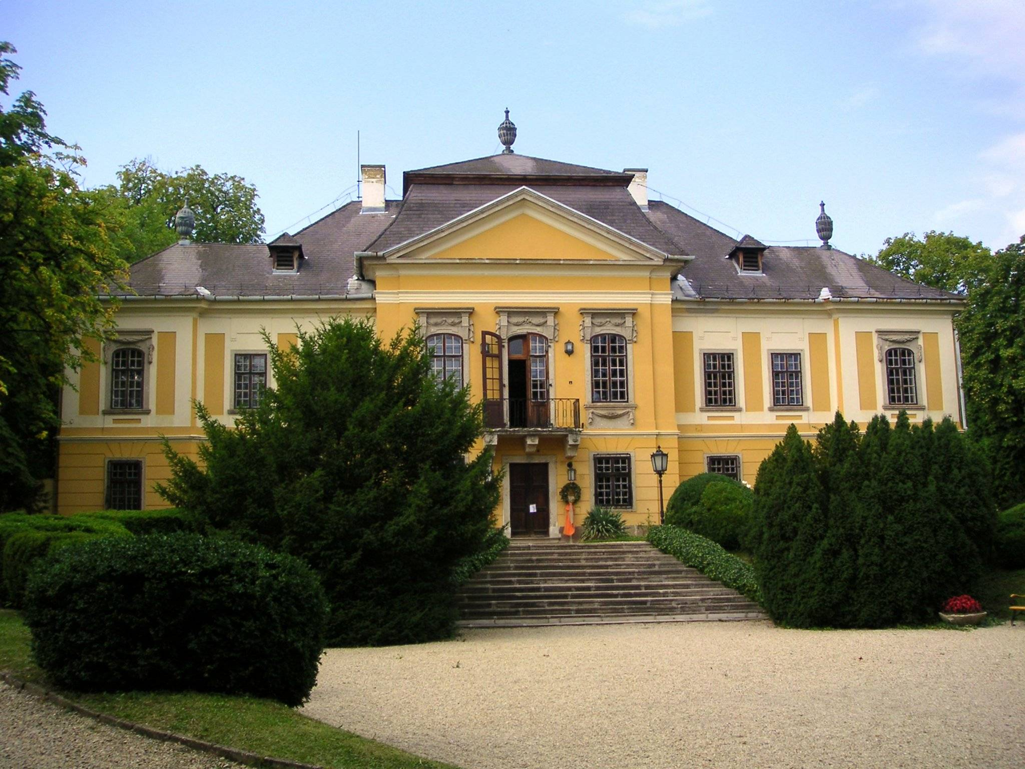 De la Motte mansion, Noszvaj, Hungary